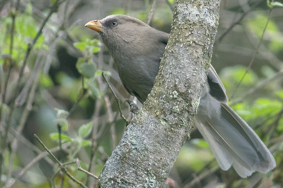 The species Great Parrotbill Conostoma aemodium had been photographed from Zuluk (Pangolakha Wildlife Sanctuary) in East Sikkim district of Sikkim state of India on 16.05.2015.